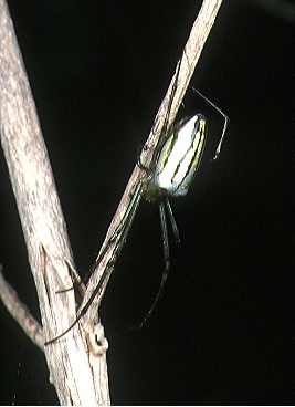 female Leucauge blanda from Okinawa.